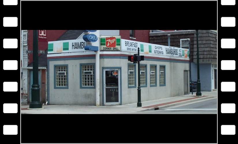 Illustration of anamorphic widescreen lens. Without an anamorphic lens, the available film area is not used completely; some of the film surface is wasted on the black bars.